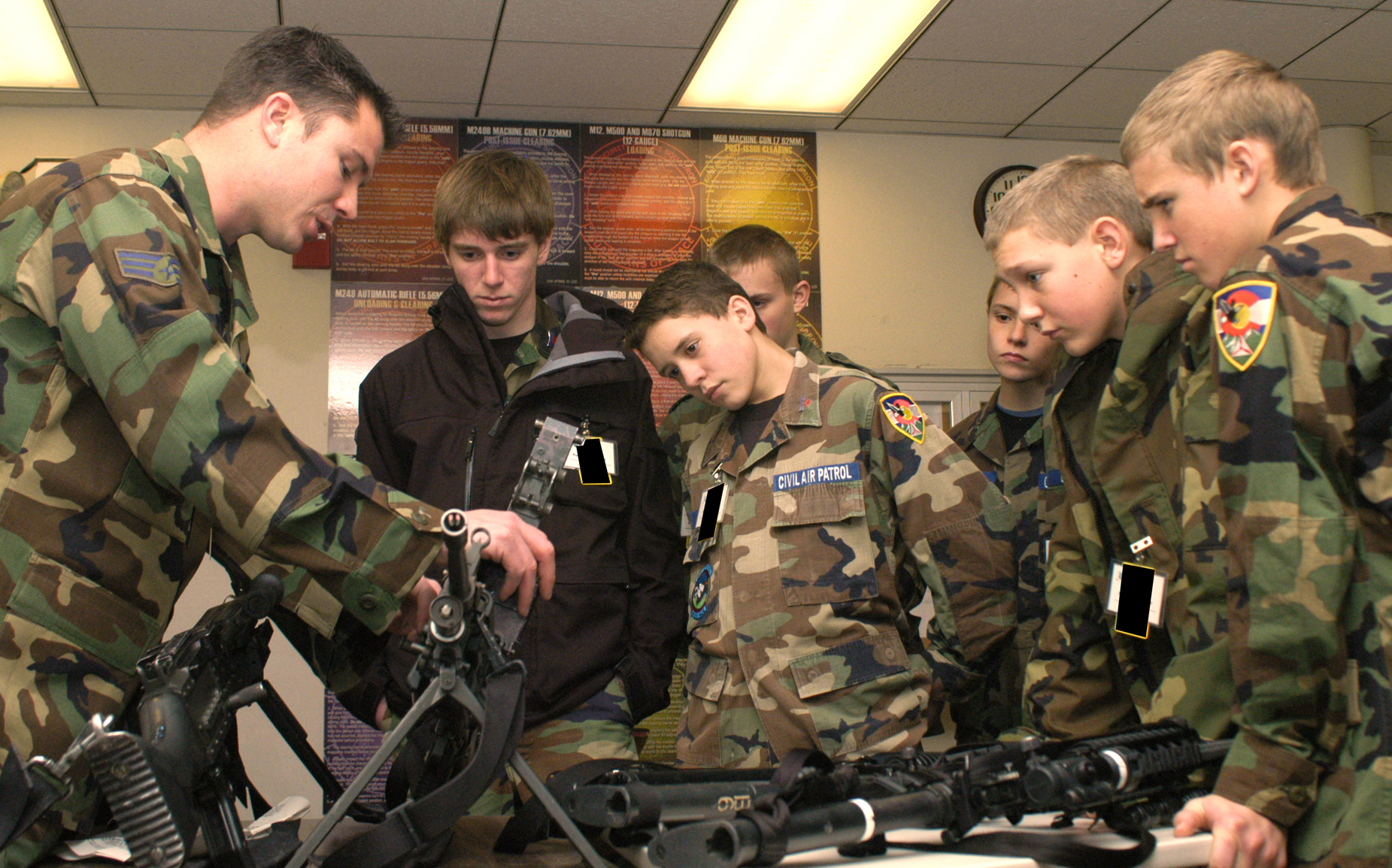 SCHRIEVER AIR FORCE BASE, Colo. -- Senior Airman Paul Kelly explains weapon handling and safety to members of the Civil Air Patrol. Approximately 50 Colorado Springs Cadet Squadron CAP cadets and volunteers recently visited Schriever as part of a base-wide tour. Airman Kelly is assigned to the 50th Security Forces Squadron. (U.S. Air Force photo/Staff Sgt. Daniel Martinez)